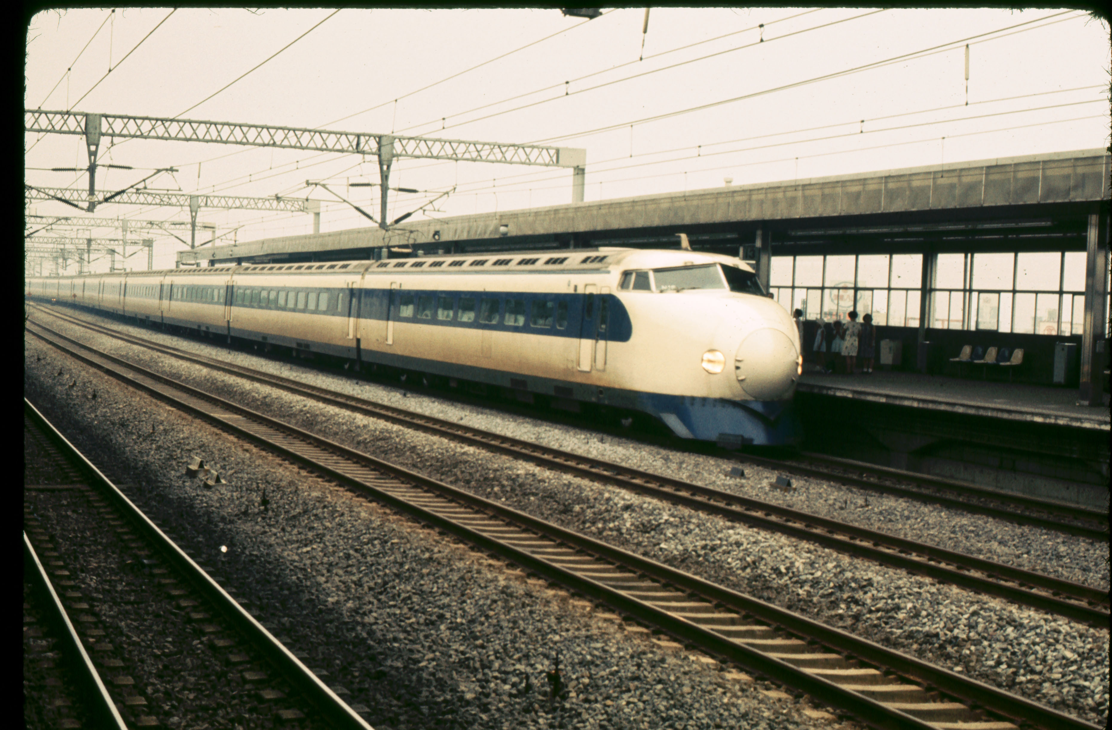 Bullet train at station; Odawara, Japan.